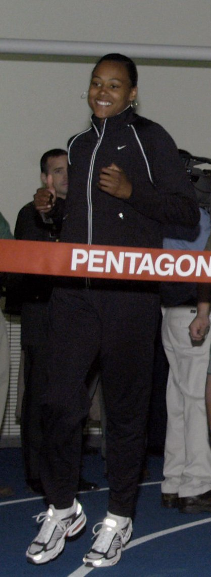 Marion Jones, American olympic athlete.